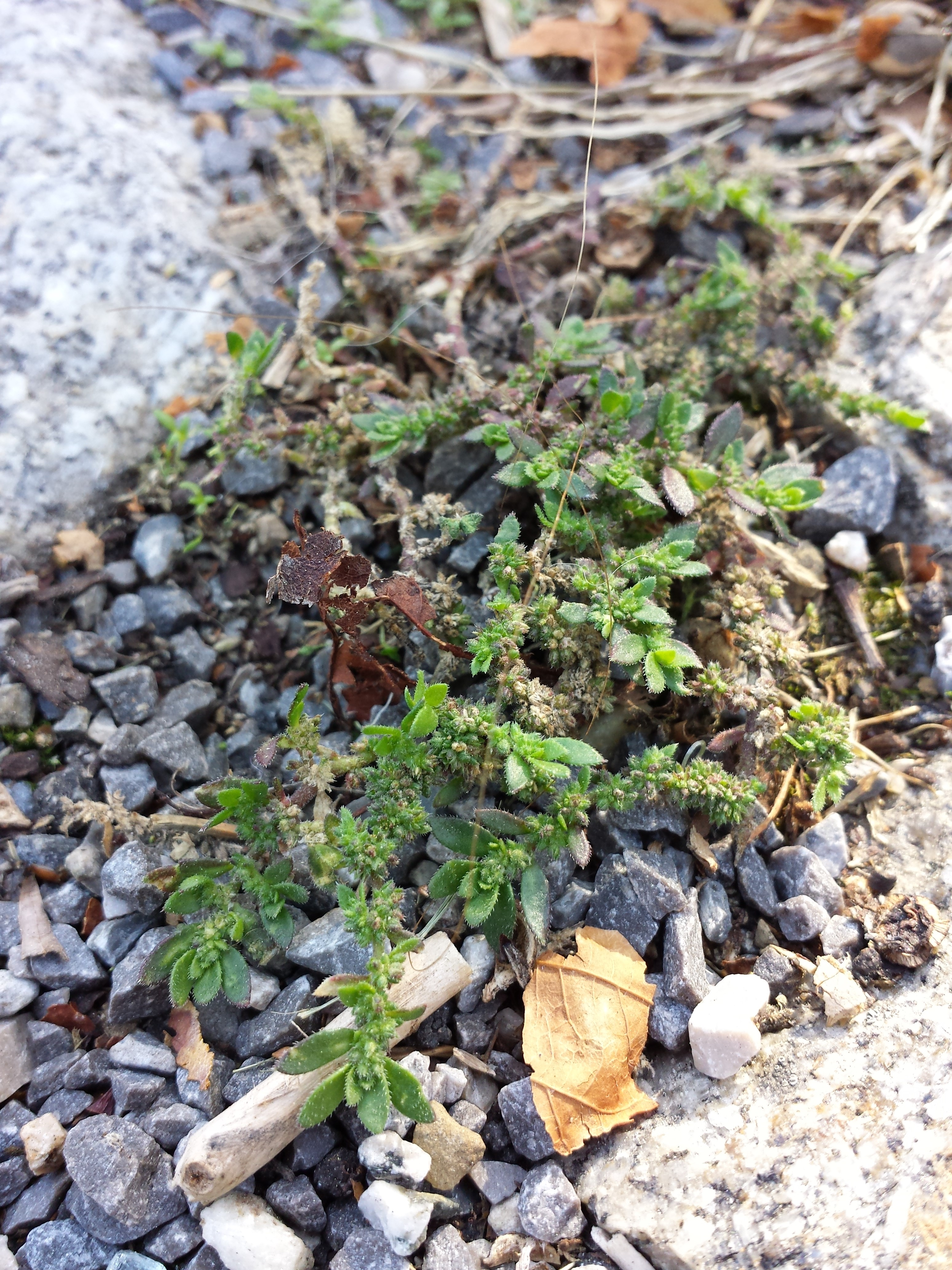 Habitus Taxon: Herniaria hirsuta (sensu Fischer et al. EfÖLS 2008, det M. A. Fischer 2013-10-05) Location: Kaiser-Ebersdorfer-Straße, Vienna Simmering - ca. 160 m a.s.l. Habitat: gap in road surfacing